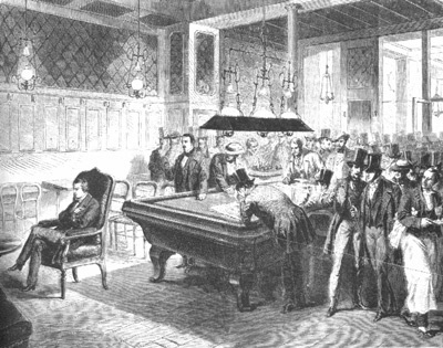 Blindfold exibition by Paul Morphy